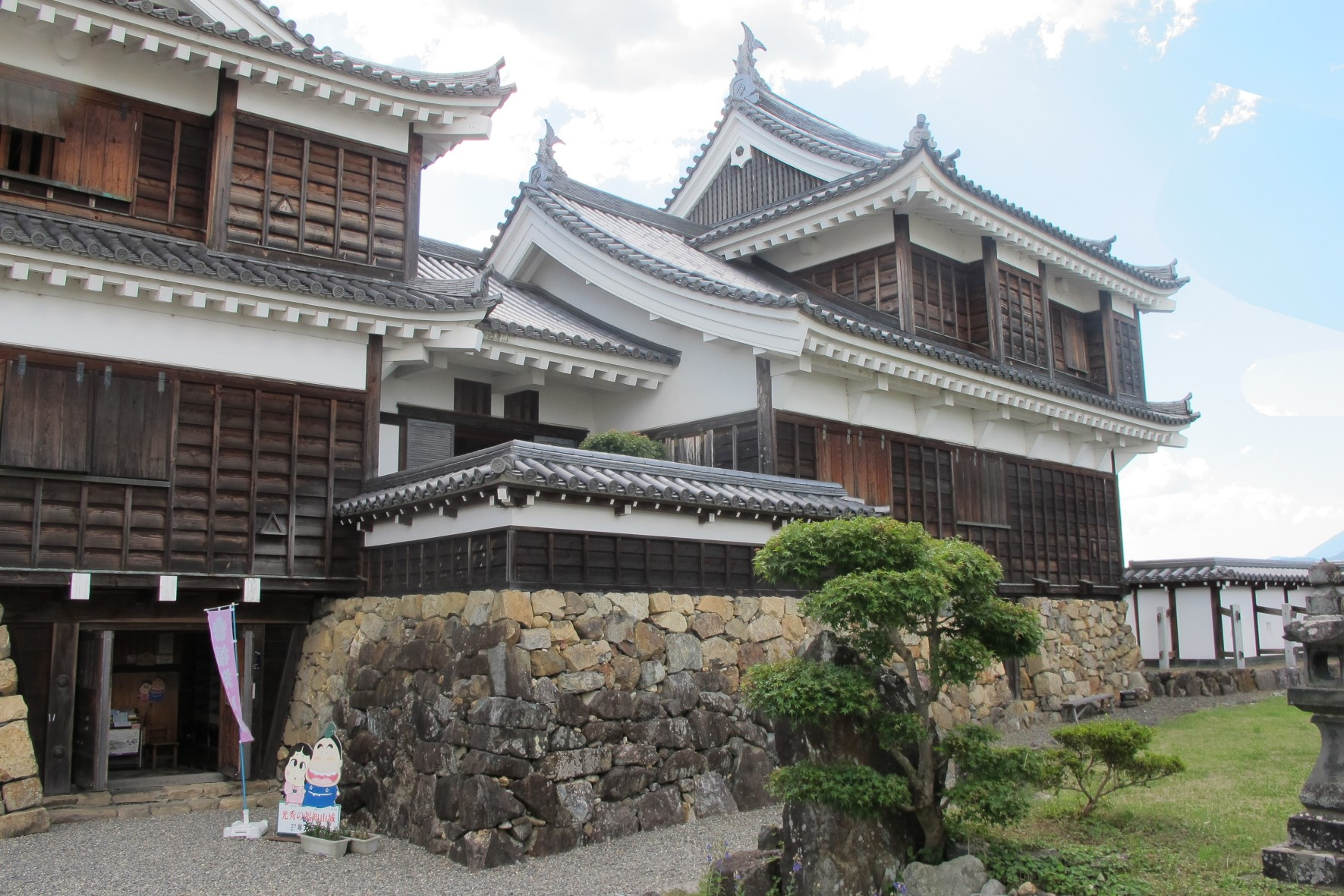 Fukuchiyama tenshukaku entrance